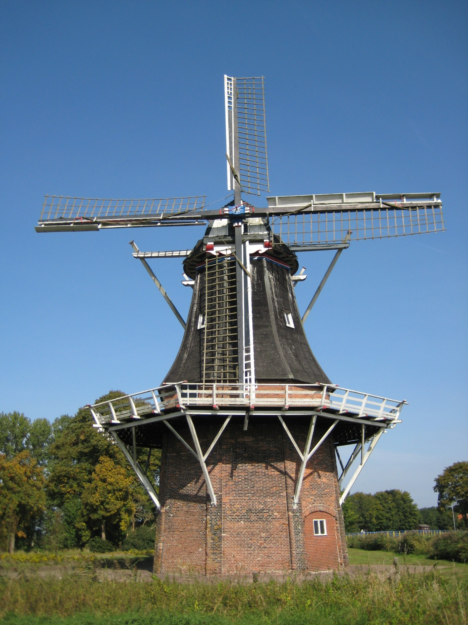 Windmill De Hoop in Ganzedijk, a small village in the Dutch province of GroningenFrysk: Wynmûne De Hoop yn Ganzedijk, in doarpke krekt bûten Finsterwolde yn de provinsje Grins